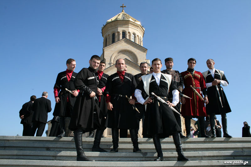 A group of Georgian men in national costume "chokha" in front of the Holy Trinity Cathedral in Tbilisi